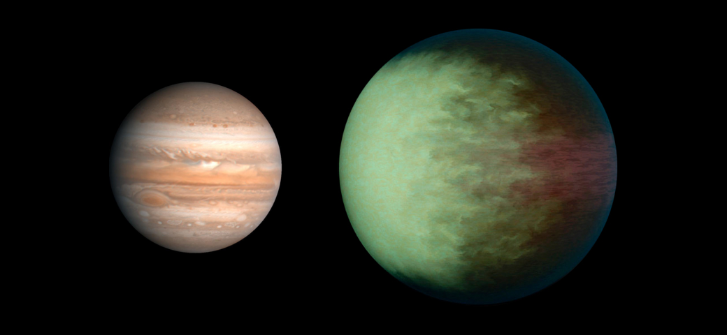 Comparison of best-fit size of the exoplanet Kepler-7 b with the Solar System planet Jupiter, as reported in the Extrasolar Planets Encyclopaedia[1] as of 2013-10-08. The planet is represented with an image based on observations of the planet's upper atmosphere by the Spitzer Space Telescope.[2] ↑ Extrasolar Planets Encyclopaedia (2010-09-30). Retrieved on 2010-09-30. ↑ NASA Space Telescopes Find Patchy Clouds on Exotic World. NASA (2013-10-08). Retrieved on 2013-10-08.